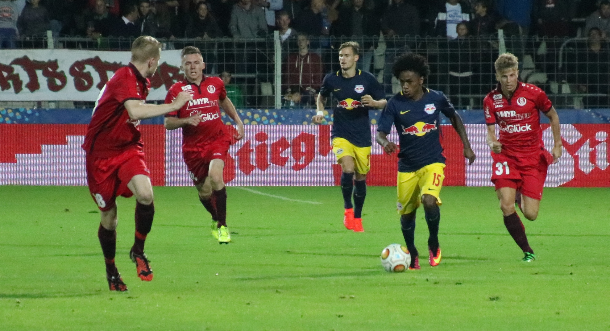 Austrian Cup 1st round